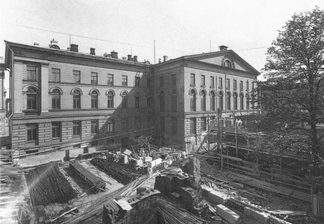 Photograph of the construction of the main building extension for Helsinki University.